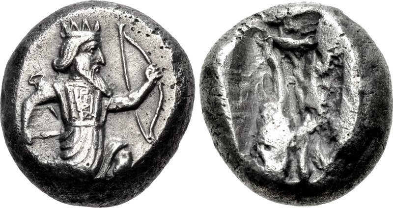 PERSIA, Achaemenid Empire. temp. Xerxes II to Artaxerxes II. Circa 420-375 BC. AR Siglos (14mm, 5.43 g). Sardes mint. Persian king or hero, wearing kidaris and kandys, quiver over shoulder, in kneeling-running stance right, holding dagger and bow / Incuse punch. Carradice Type IV B (pl. XIV, 43); Meadows, Administration –; BMC Arabia pl. XXVII, 10; Sunrise –. Good VF, lightly toned.